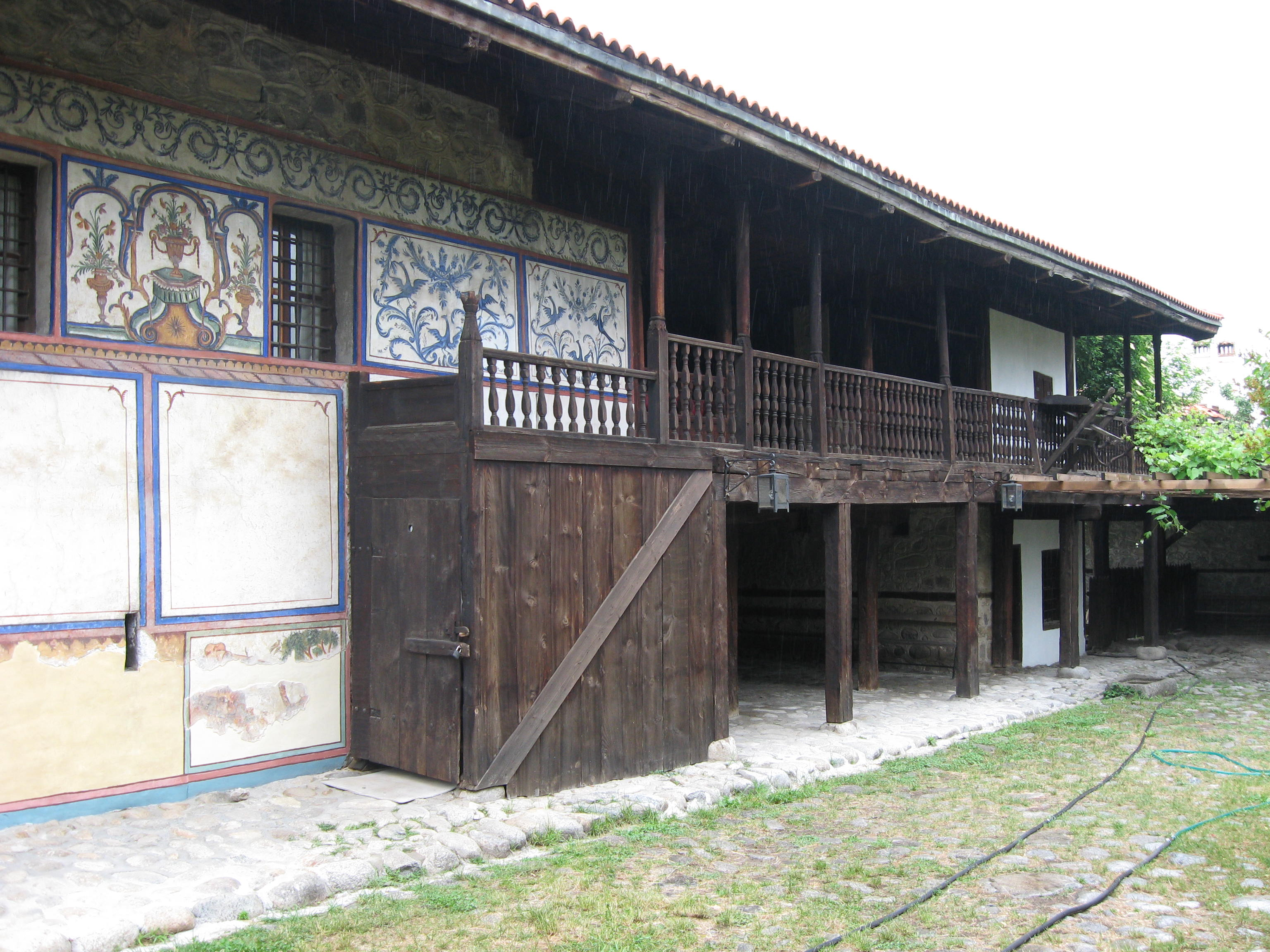 Velyan's House Museum